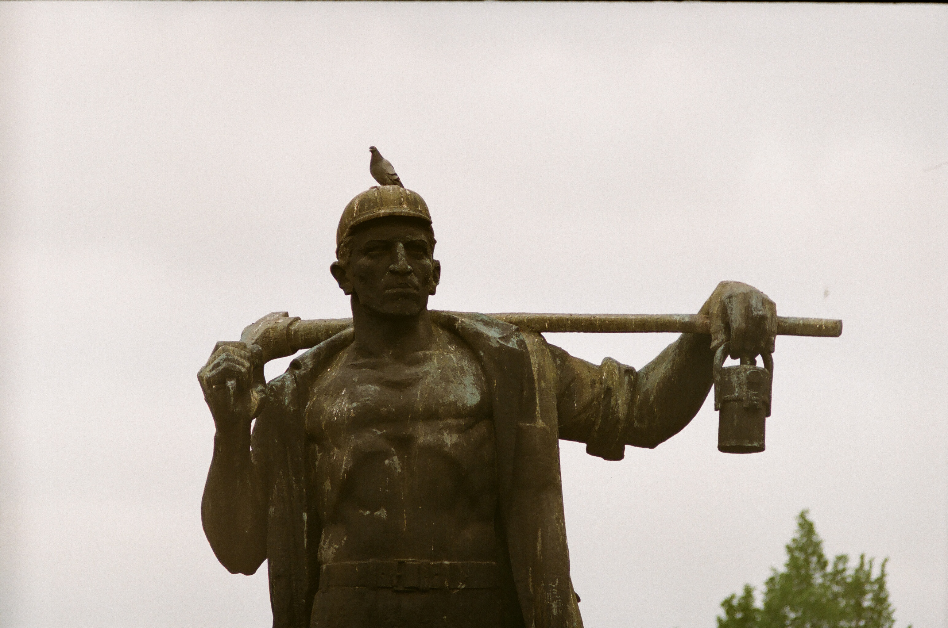 Monument of Wincenty Pstrowski in Zabrze